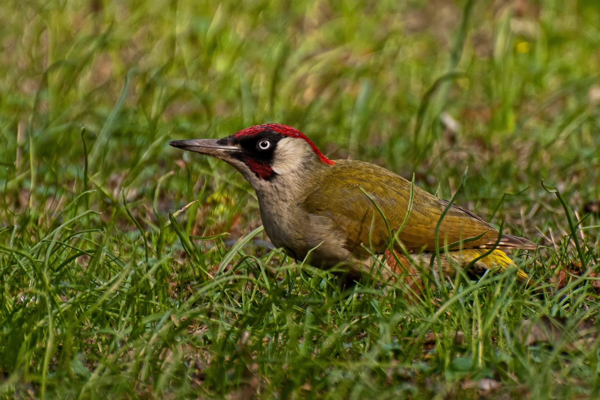 European green woodpecker (Picus viridis)